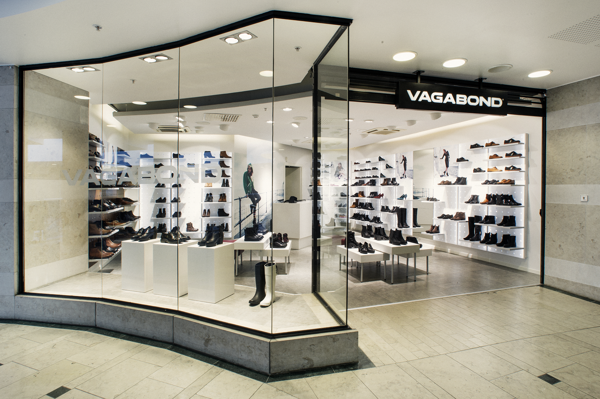 Vagabond Store, Västermalmsgallerian Stockholm